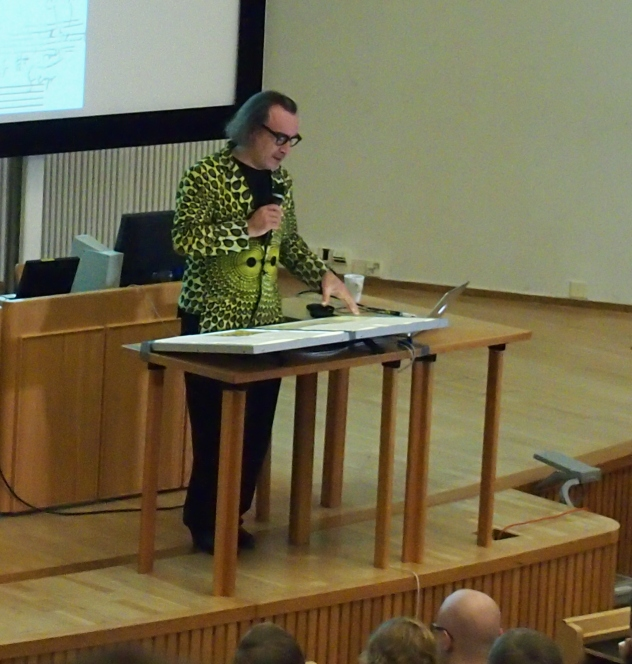 Esa Saarinen giving a lecture at the Aalto University in the main hall of the main building of the Otaniemi campus in January 2012.